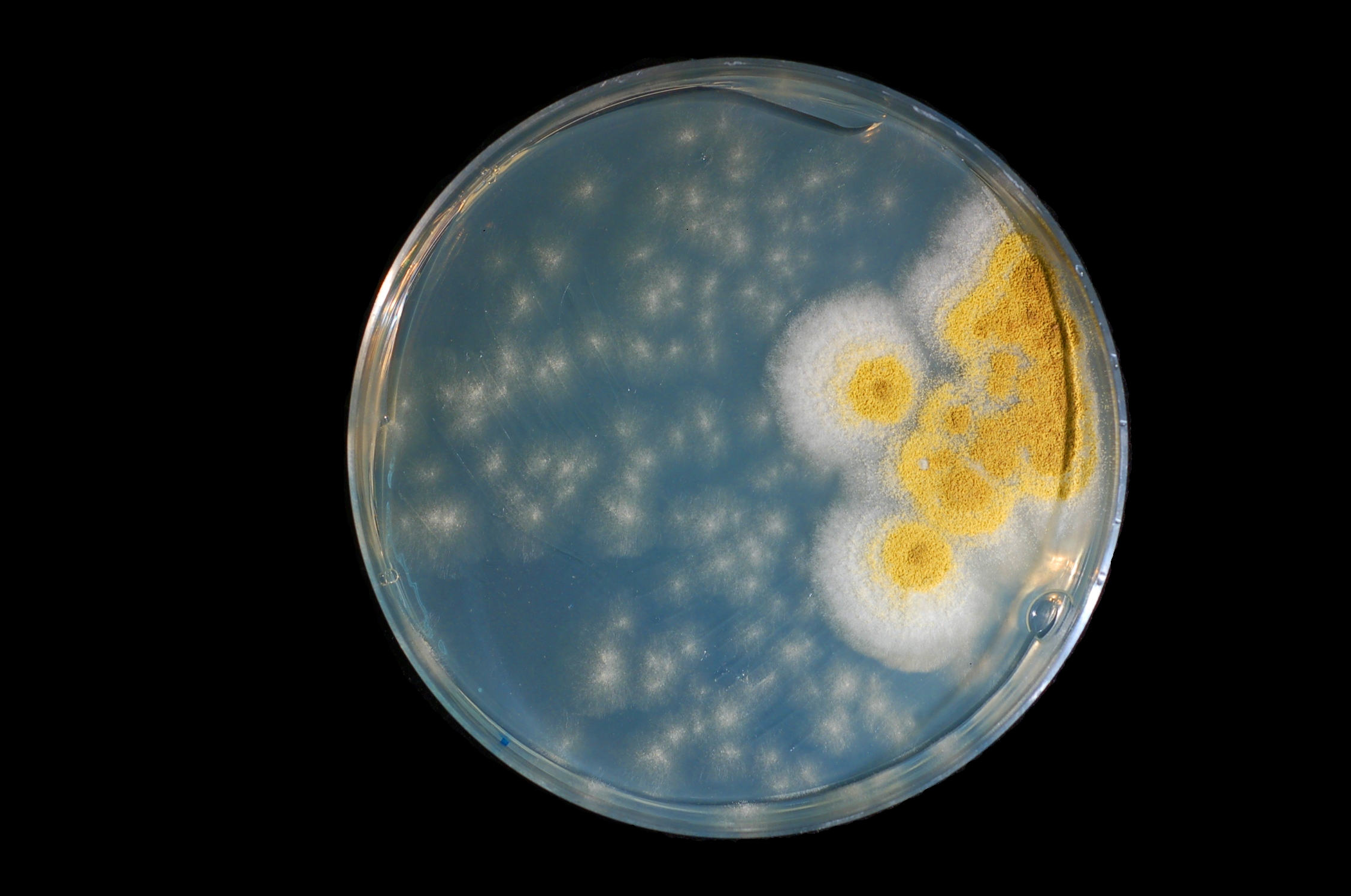 An unidentified species of Aspergillus growing on a potato dextrose agar plate. Identified using Barnett, H. L. & Hunter, B. B. (1998) Illustrated Genera of Imperfect Fungi. APS Press: St. Paul, MN; pp. 94–5 ISBN 0-89054-192-2.